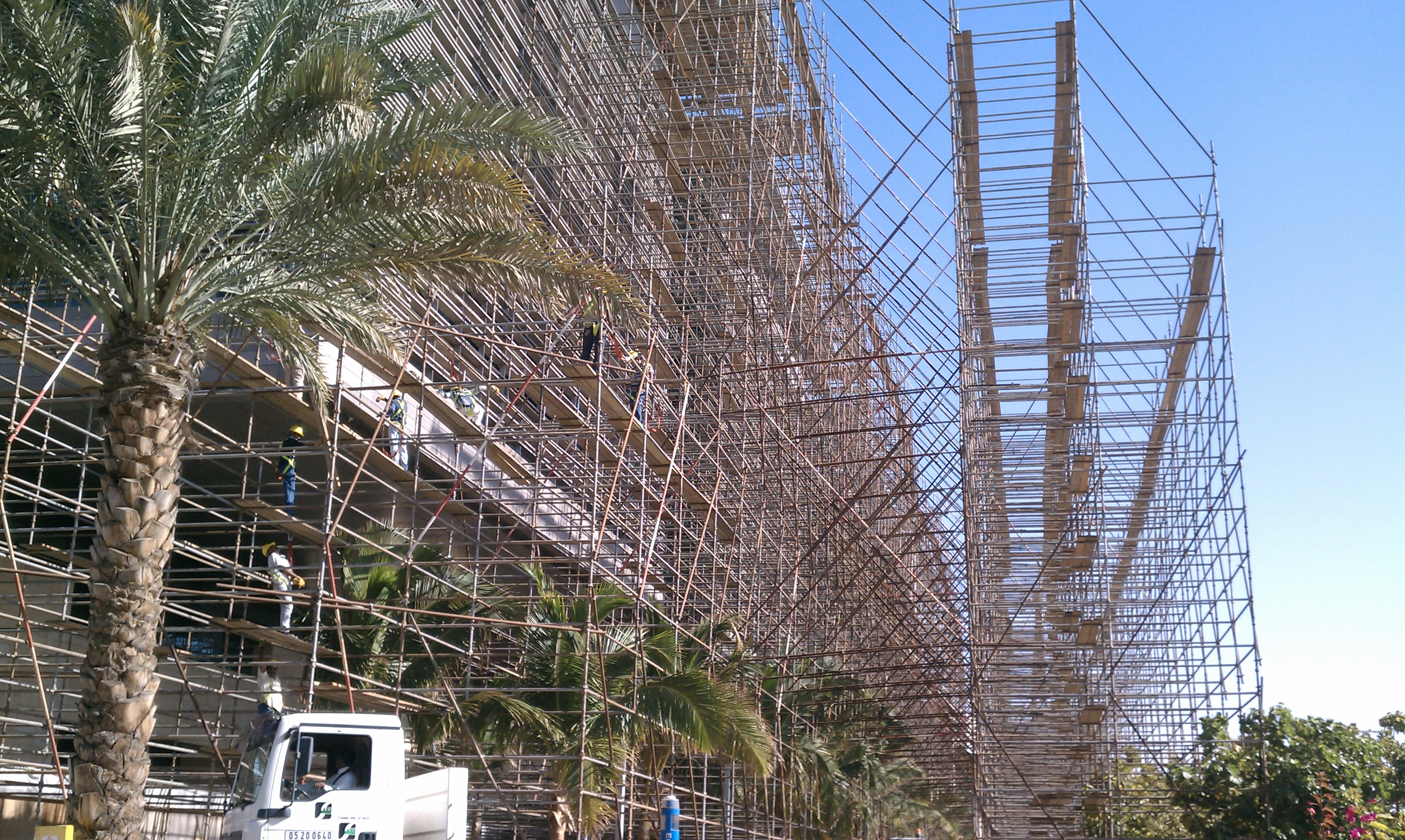 Scaffolding at KAUST